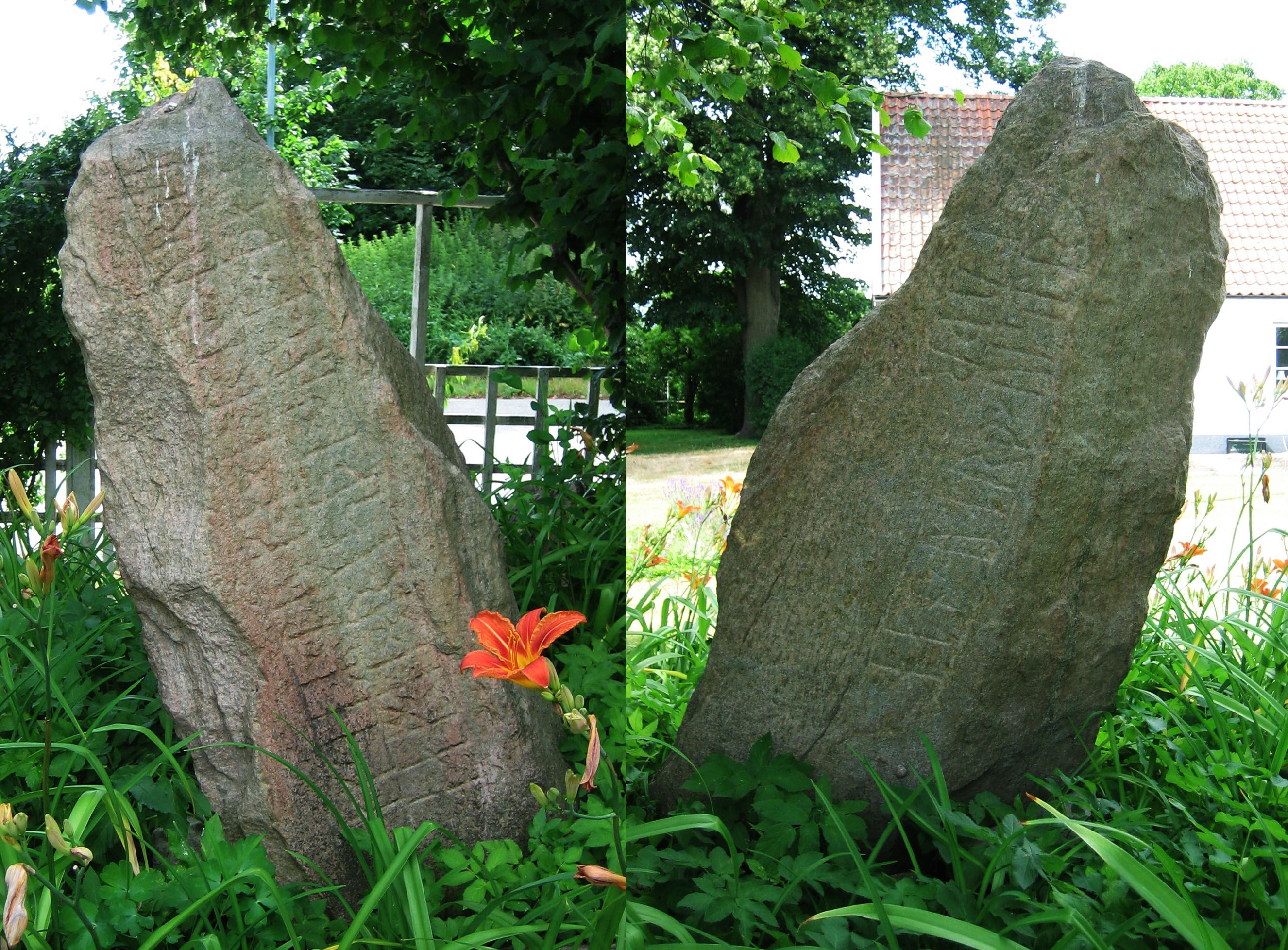 The runestone Uppåkrastenen DR266 in Hjärup, Sweden. Photo by the uploader.